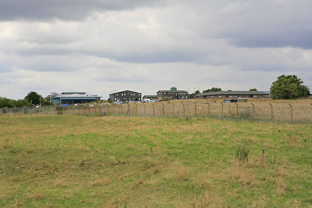 Part of Blandford military Camp seen from nearby tumulus. A footpath runs past the tumulus and skirts the outside of the camp's boundary fence.